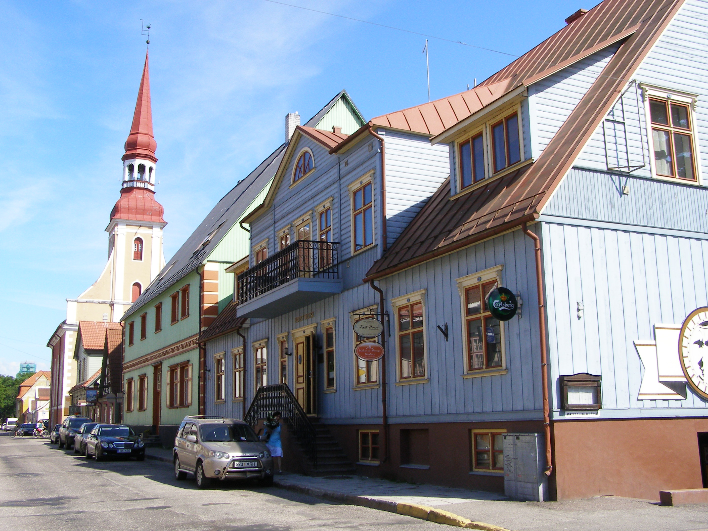 An Old Town street in Parnu, Estonia